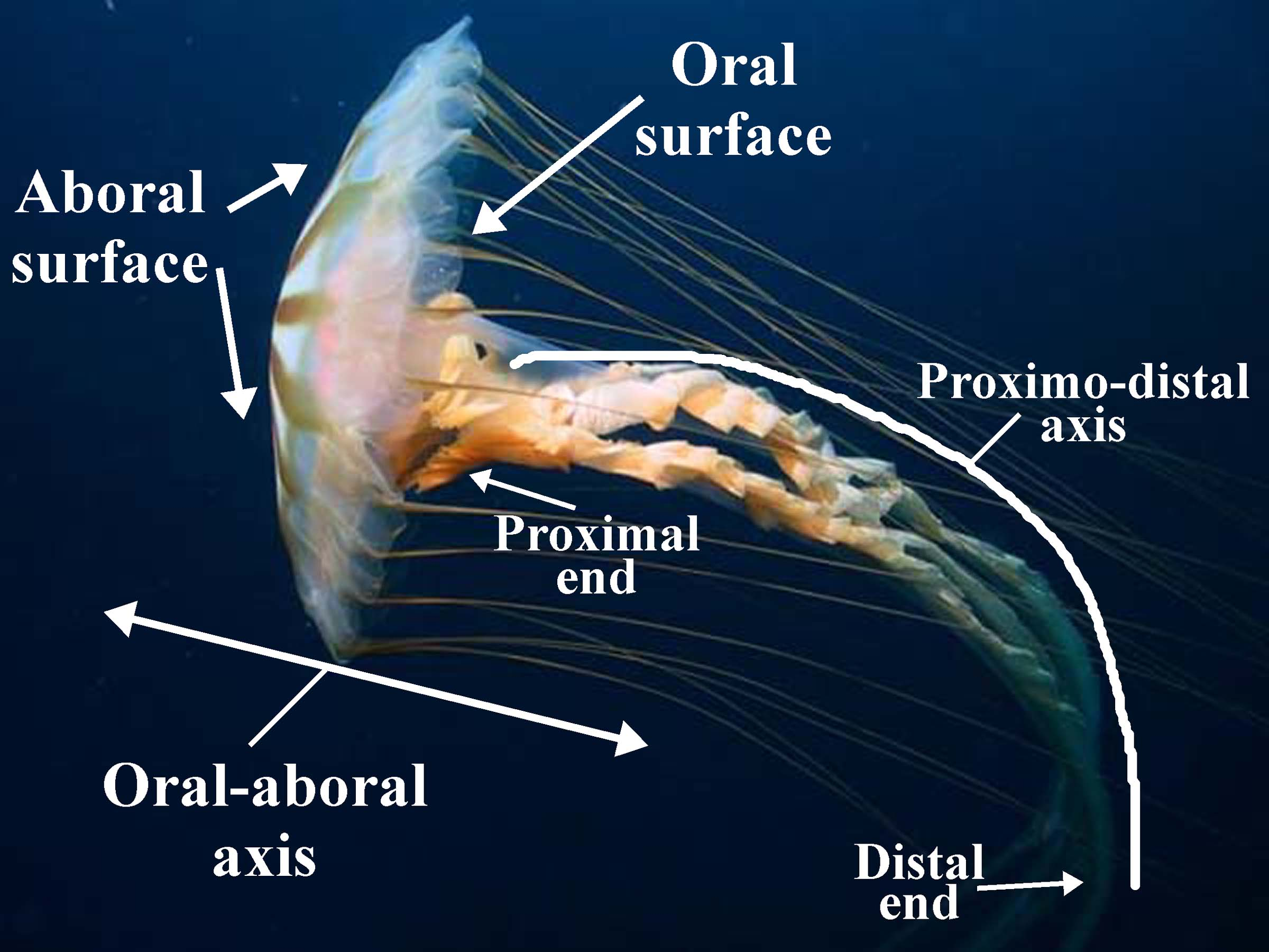 Image showing major axes of radiate animals